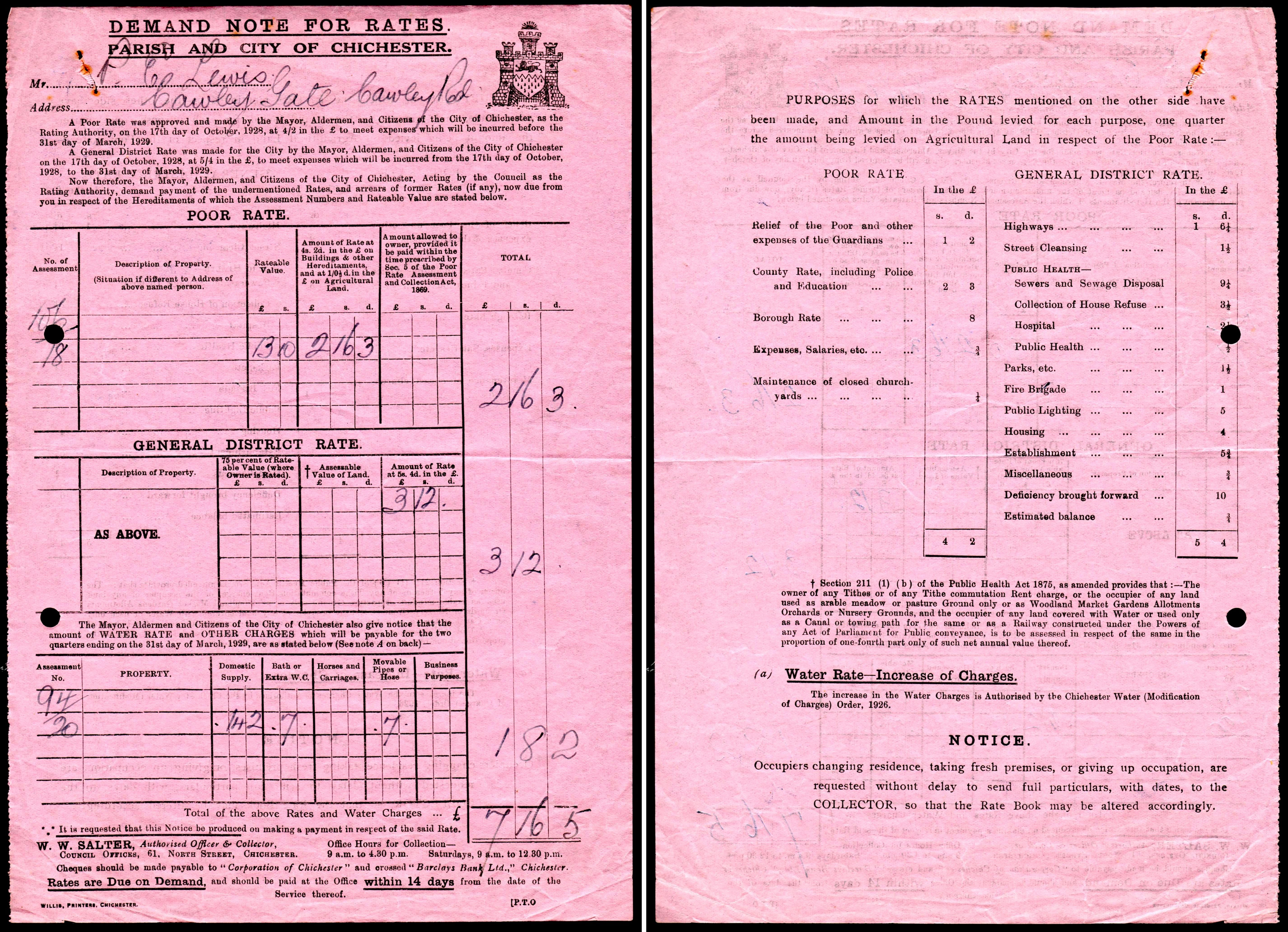 Local rates (tax) bill for City of Chichester 1929. Front on left side of scan. Back on right side of scan.